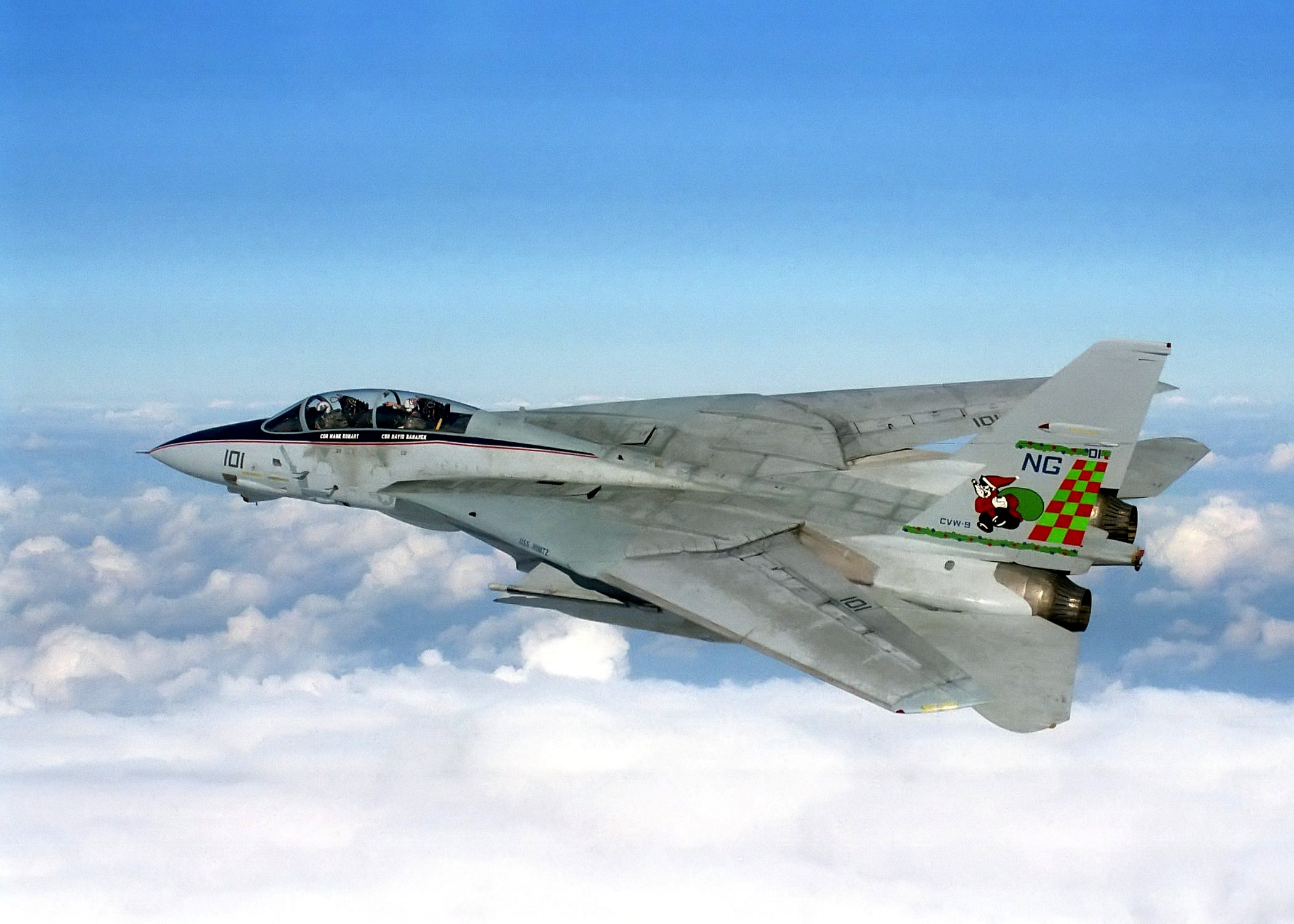 An F-14A Tomcat, attached to Fighter Squadron 211 (VF-211) aboard USS NIMITZ (CVN 68) flies over Iraq during routine flight operations. Nimitz was operating in the Persian Gulf in support of Operation Southern Watch.